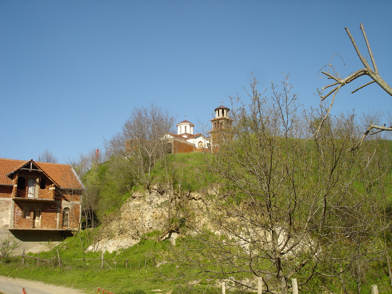 The church in the village of Gradec near Vinica, Macedonia